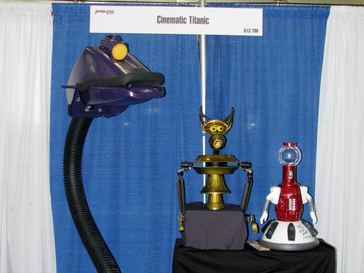 Puppets Gypsy, Crow T. Robot & Tom Servo.